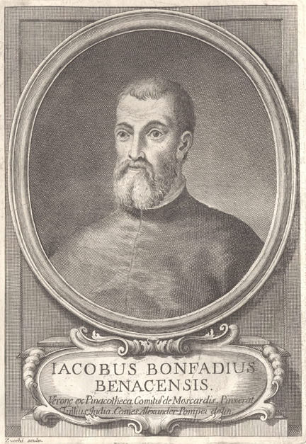 Illustration from an engraving of Jacopo Bonfadio, notable Italian humanist and historian, born 1508.